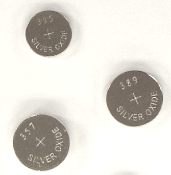 Button batteries of silver oxide